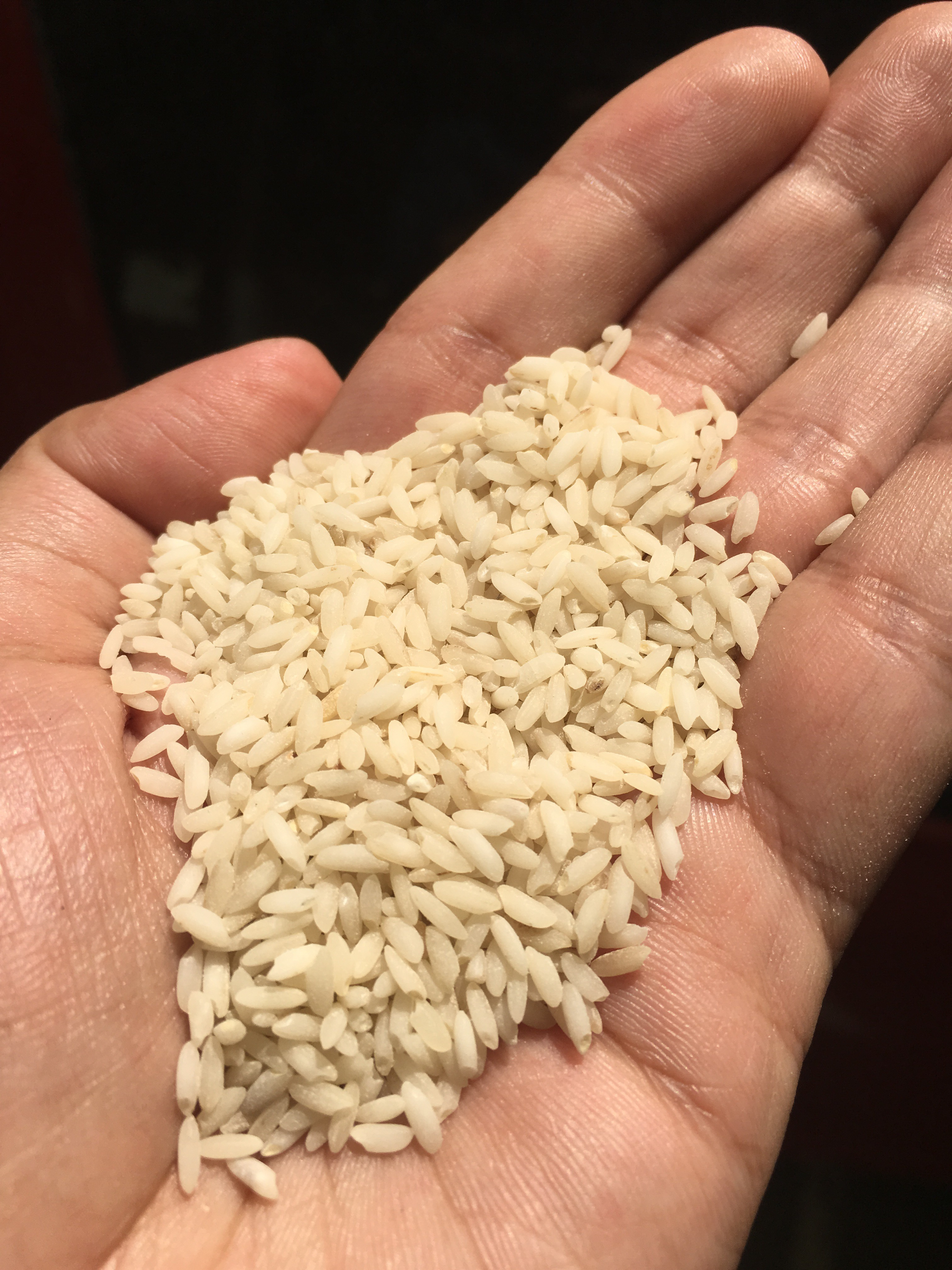 Grains of Kalanamak rice